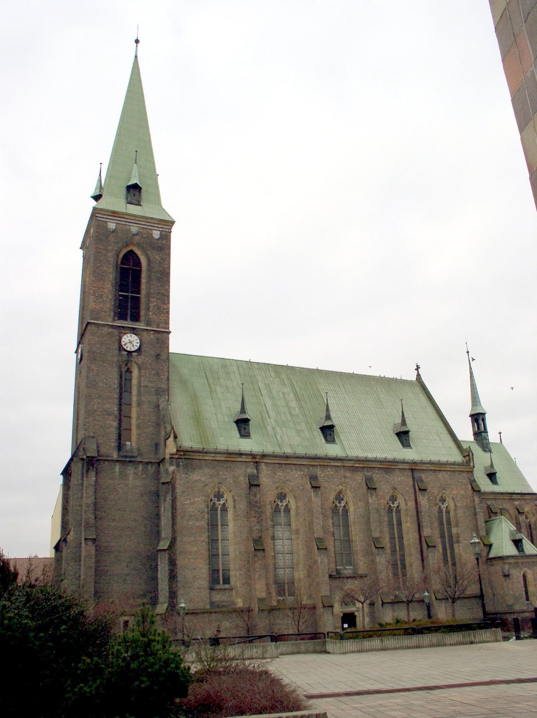 Church in Kralupy